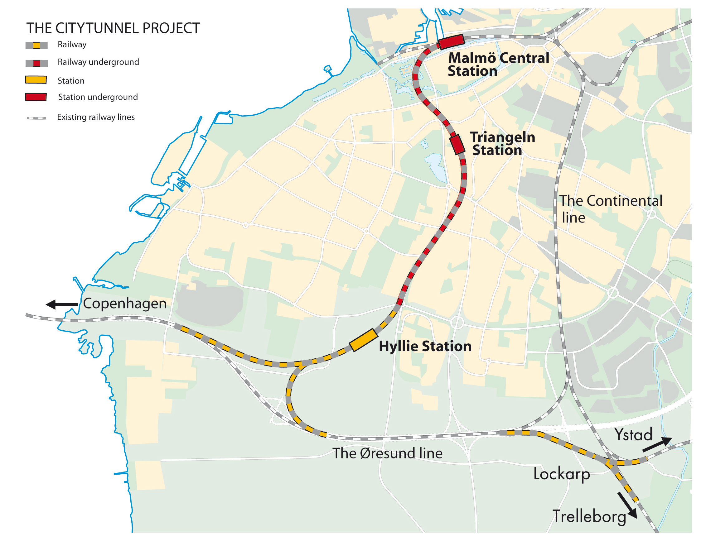 The Citytunnel Project.